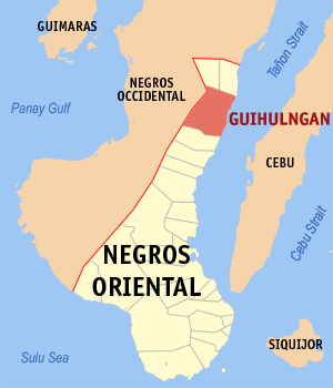 Map of Negros Oriental showing the location of Guihulngan